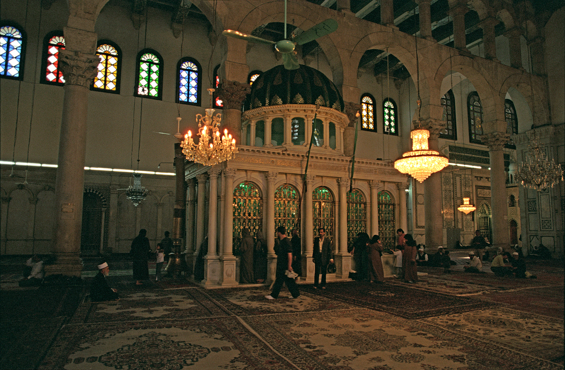 The Umayyad Mosque, Damascus - the Shrine of John the Baptist's head